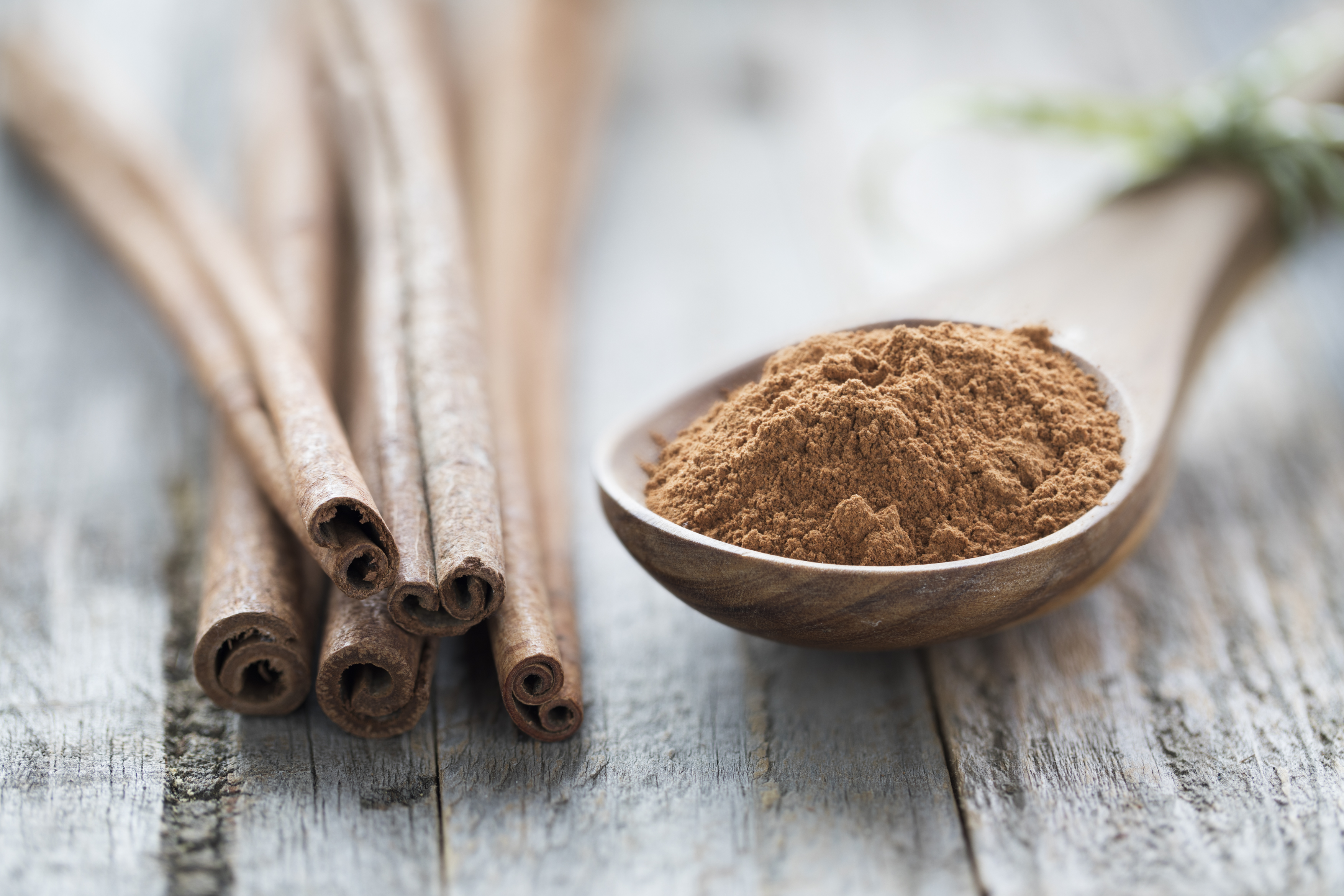 This photo is available under Creative Commons. If you use this image, please give credit to with a clickable link.